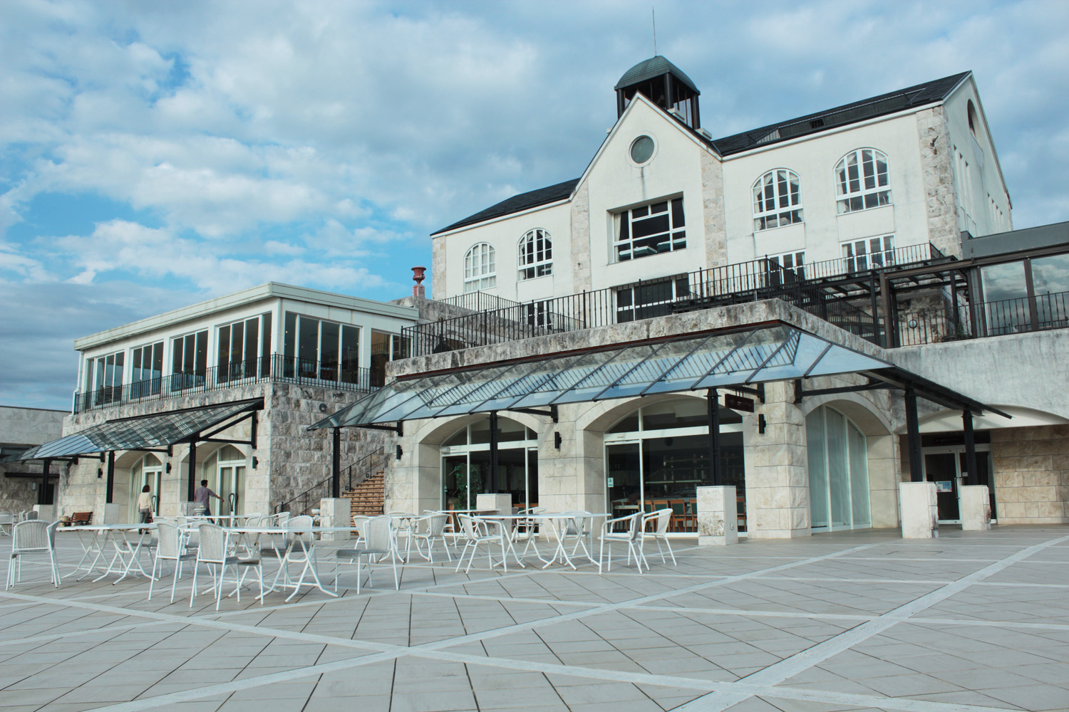 Nakaizu Winery Hills in Izu, Shizuoka Prefecture, Japan.